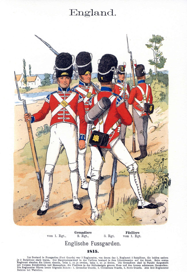 England. Fuß-Garden. 1815